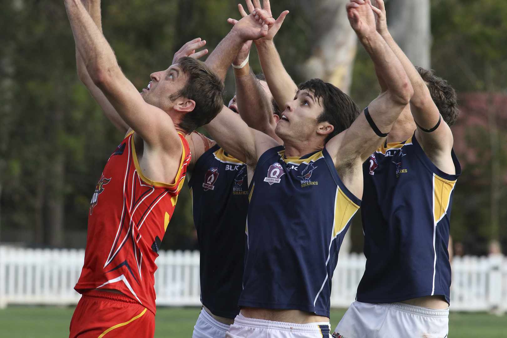 Pack of Australian rules footballers leap for the ball